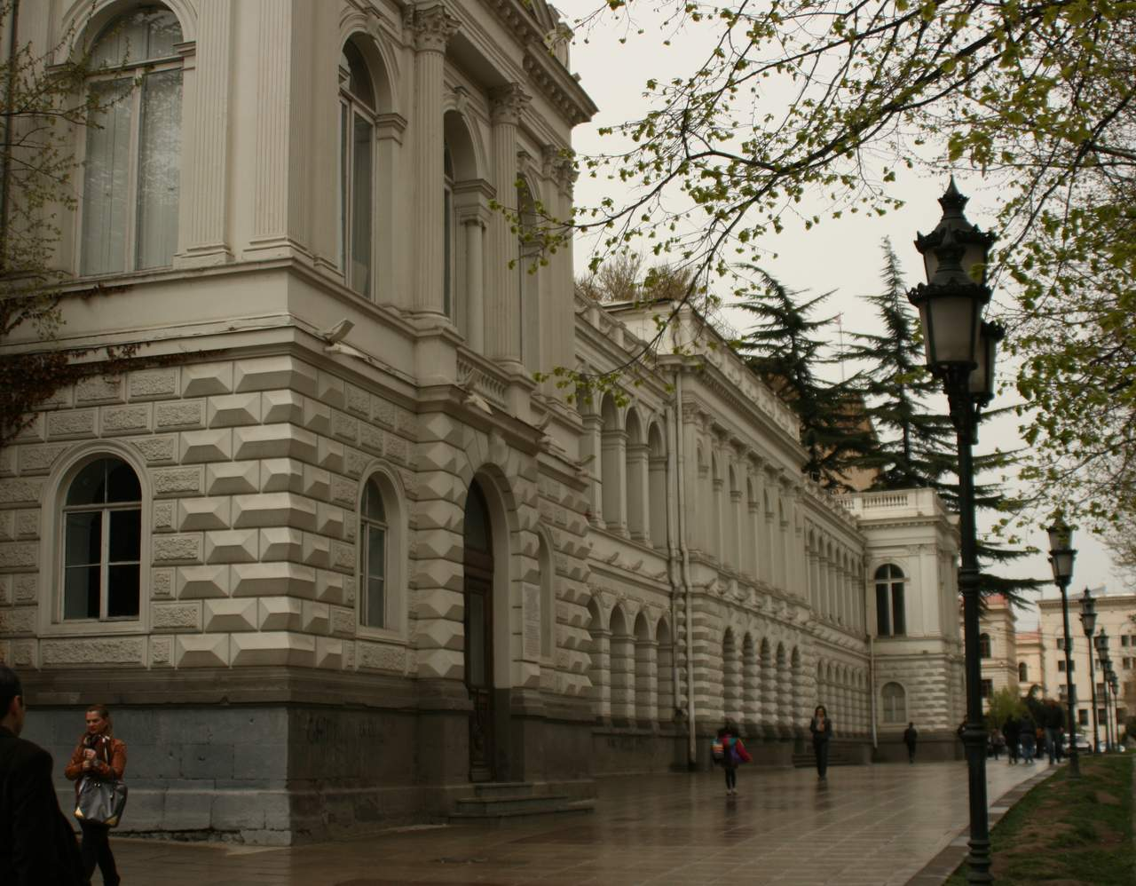 The Youth Palace, Tbilisi